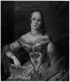 Matilda Gelhaar as Rosina